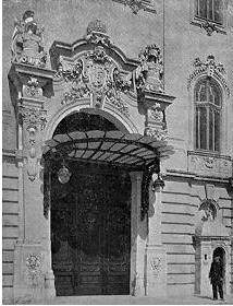 Entrance to the King's Staircase in the Royal Castle of Budapest.